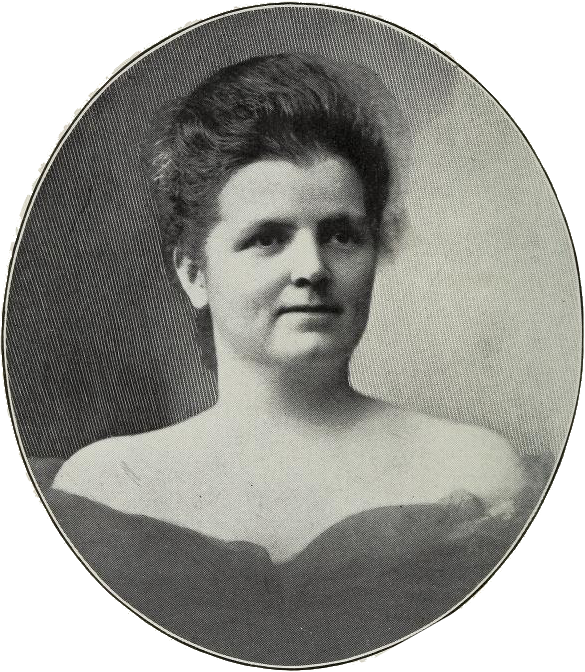 Portrait of Elizabeth Towne, New Thought publisher in the early 20th century.